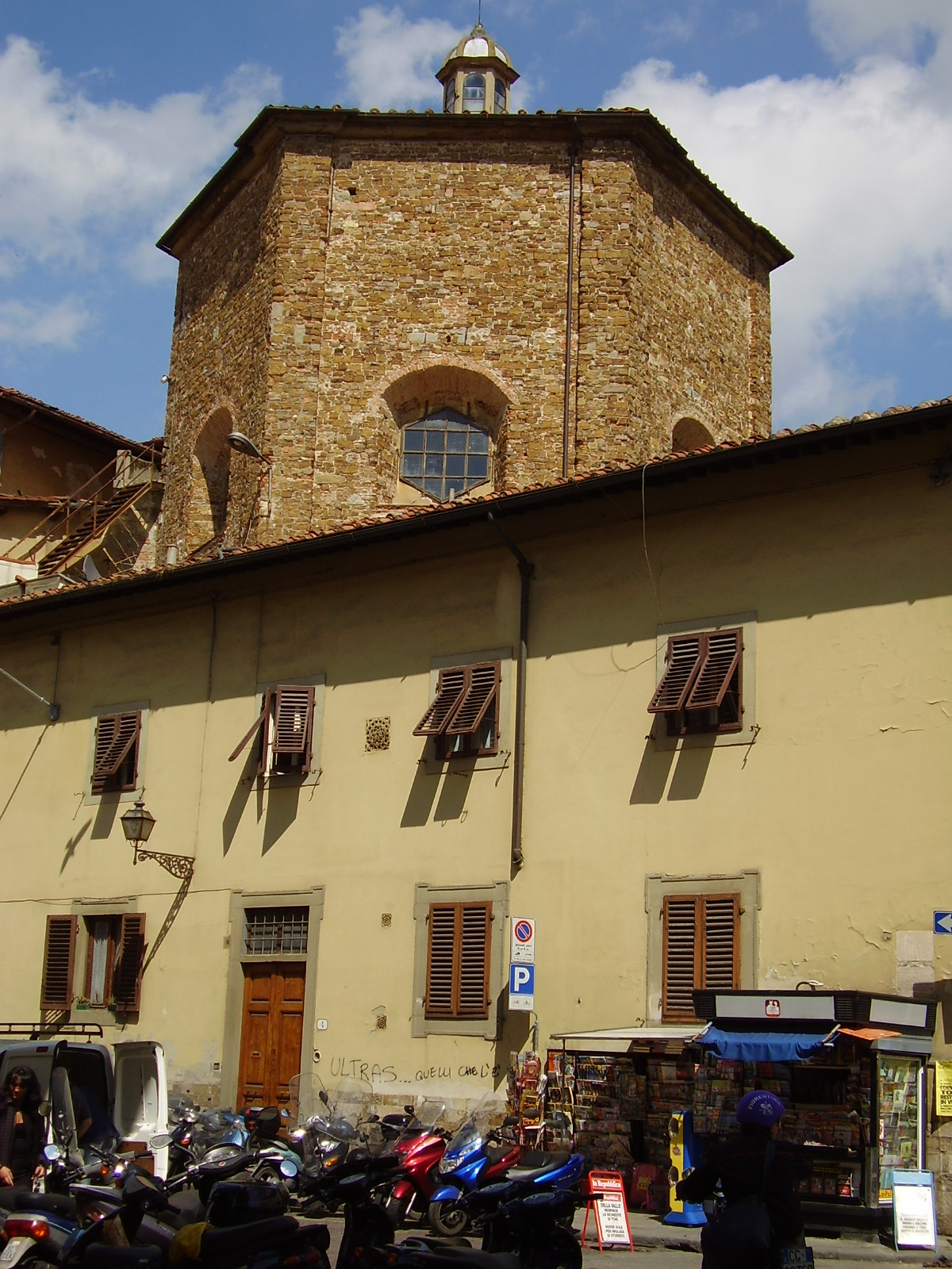 Santa Teresa ex-monastry, Florence, Italy